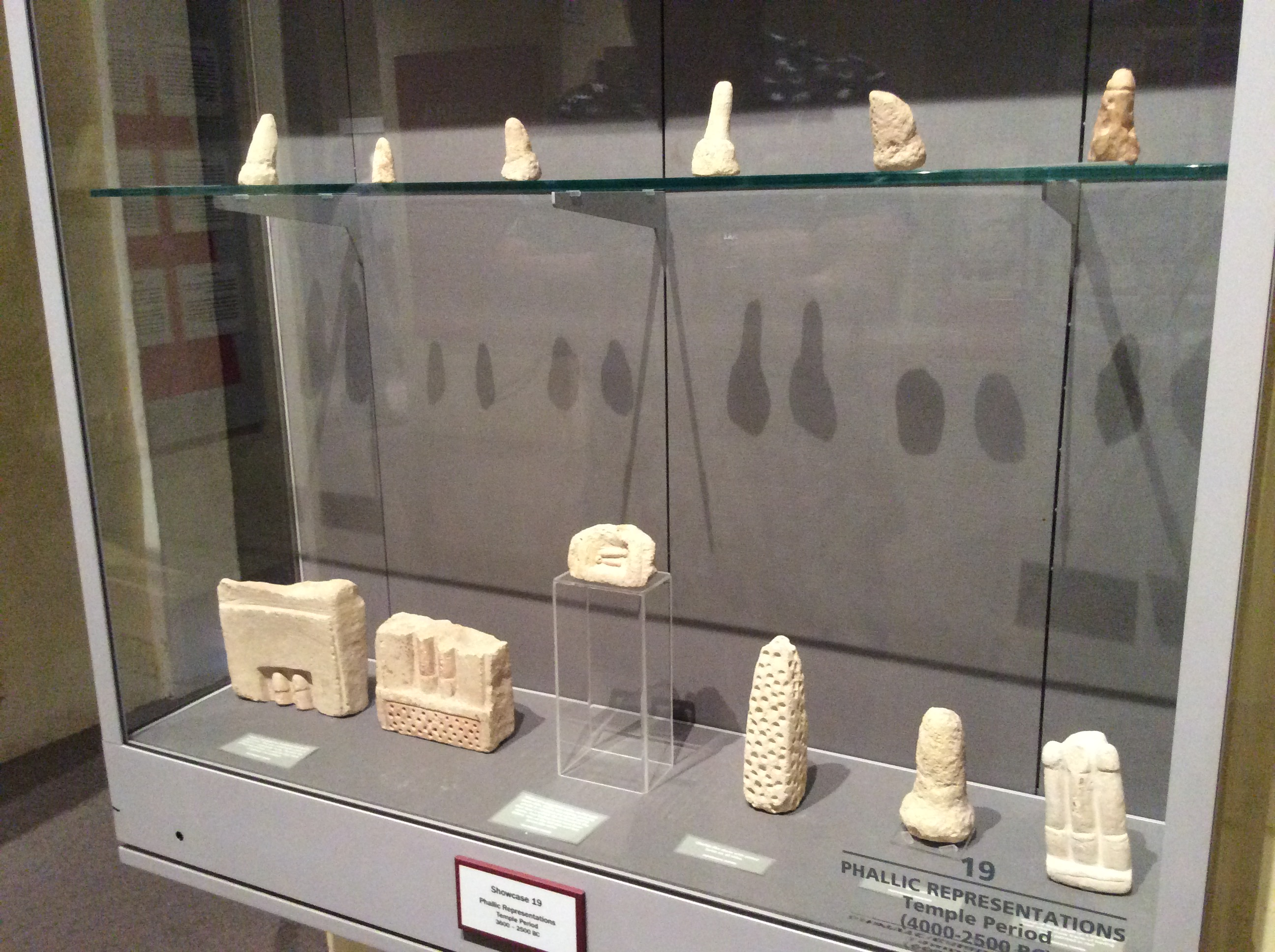 Auberge de Provence This media is about Maltese cultural property with inventory number 01135.